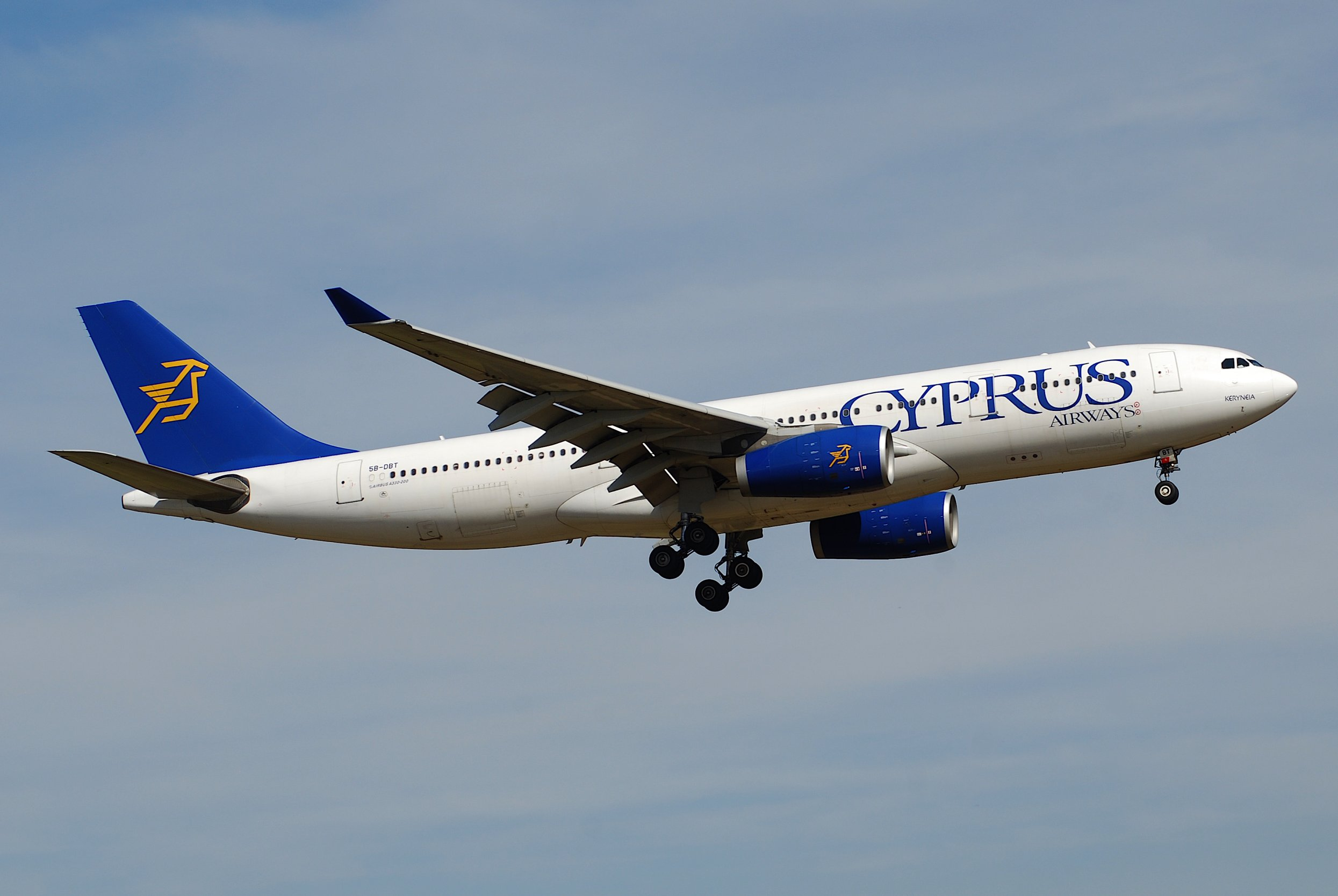 Cyprus Airways Airbus A330-200; 5B-DBT@ZRH;15.03.2008/503bi